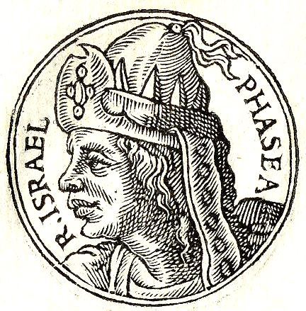 Phasea-Pekah was king of Israel. He was a captain in the army of king Pekahiah of Israel, whom he killed to become king.